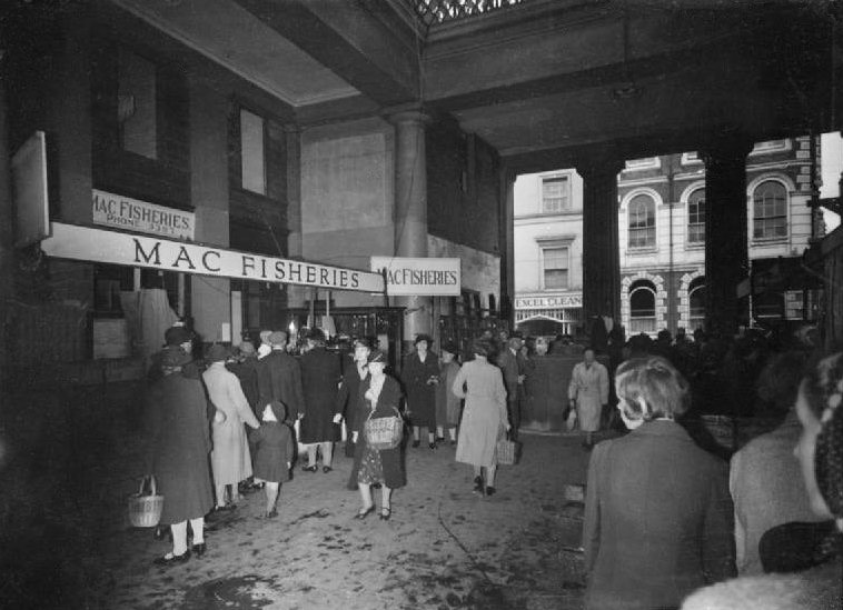 A Middle East Soldier Revisits Britain- Life in Wartime Exeter, Devon, England, UK, October 1943 A busy everyday scene inside the Higher Market in Exeter. The original caption states that the larger firms have joined the smaller shopkeepers' stalls in the market, which, before the war, along with neighbouring Goldsmith Street, was earmarked for demolition. A new Civic Centre was to be built on the site. Clearly visible is 'MacFisheries'. Many women can be seen with their shopping baskets.